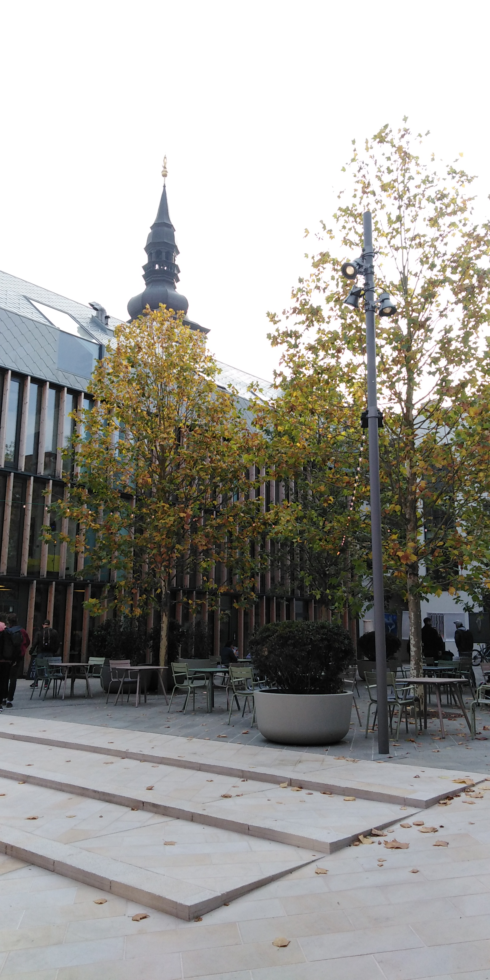 Slovakia - Trnava - Little Berlin